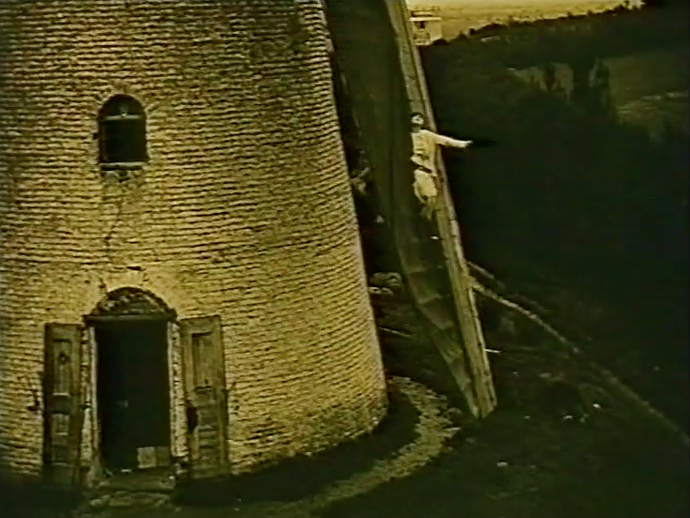 Annie Bos in 'Het geheim van Delft' (1917)